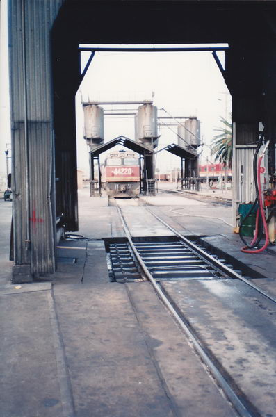 44220 at broadmeadow loco standing in the sanding refilling shed circa 1990